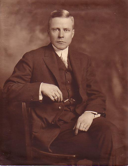 Willism M. Armistead